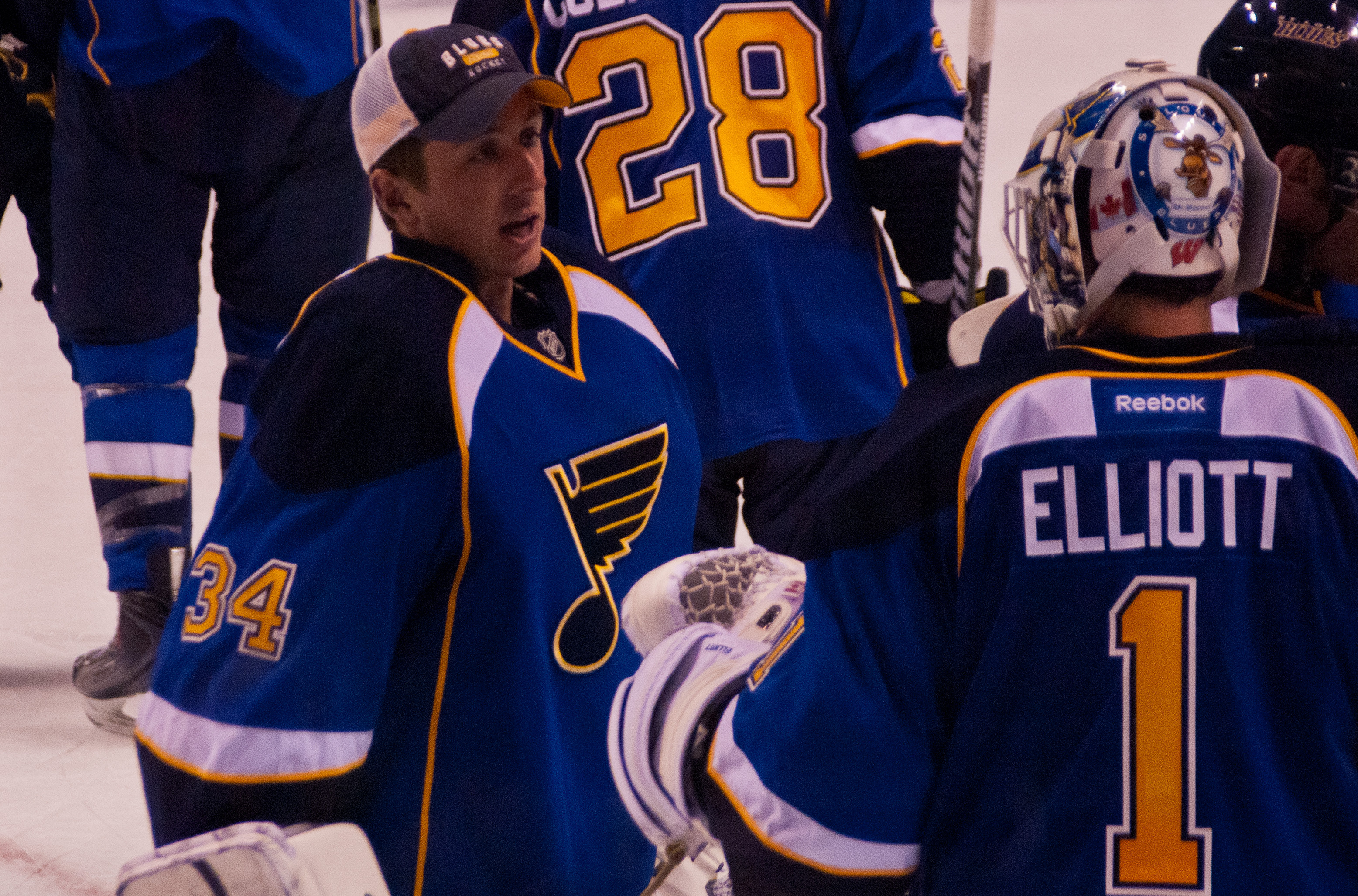 Jake Allen and Brian Elliott of the St. Louis Blues